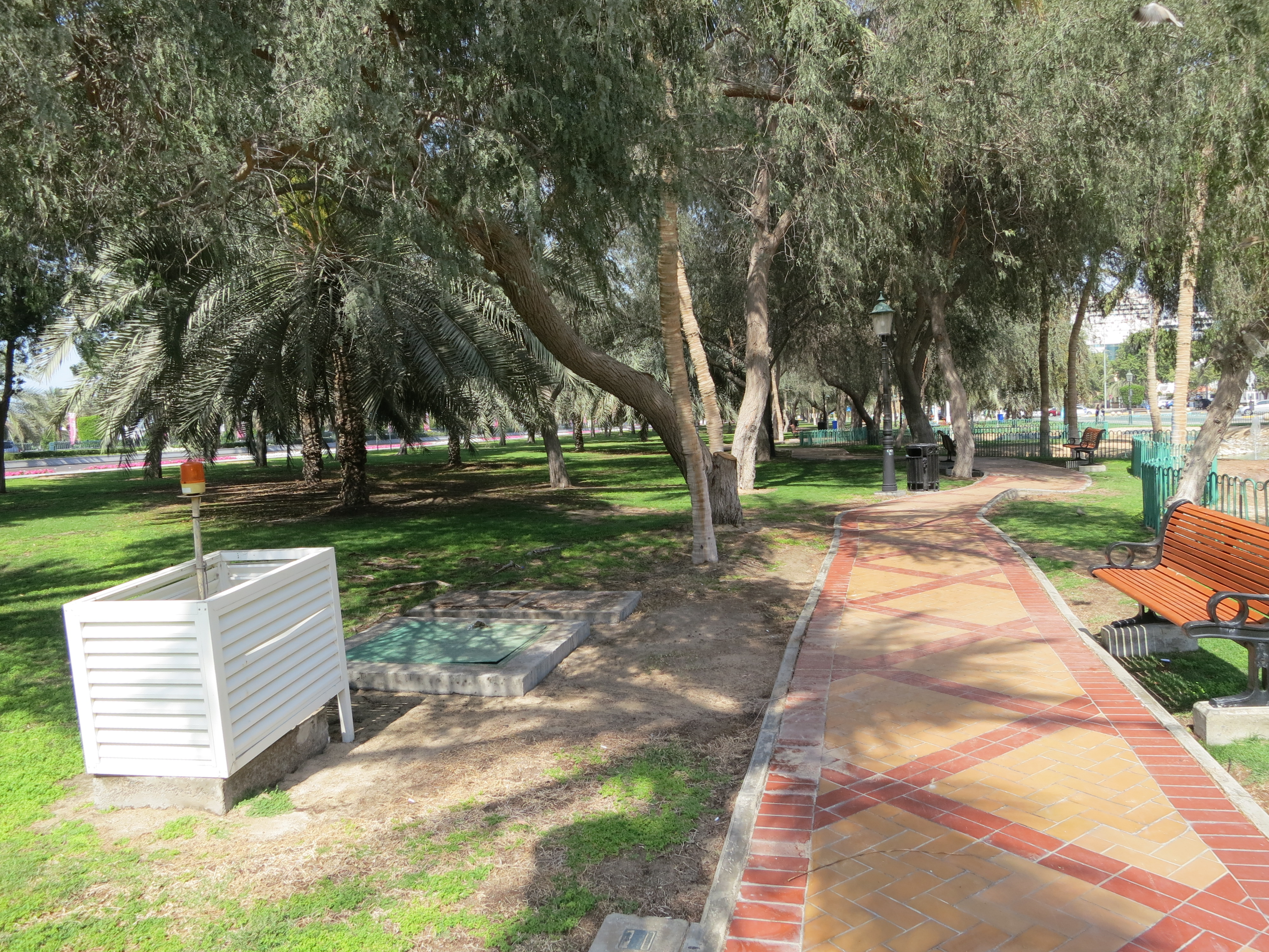 Public park in Abu Dhabi